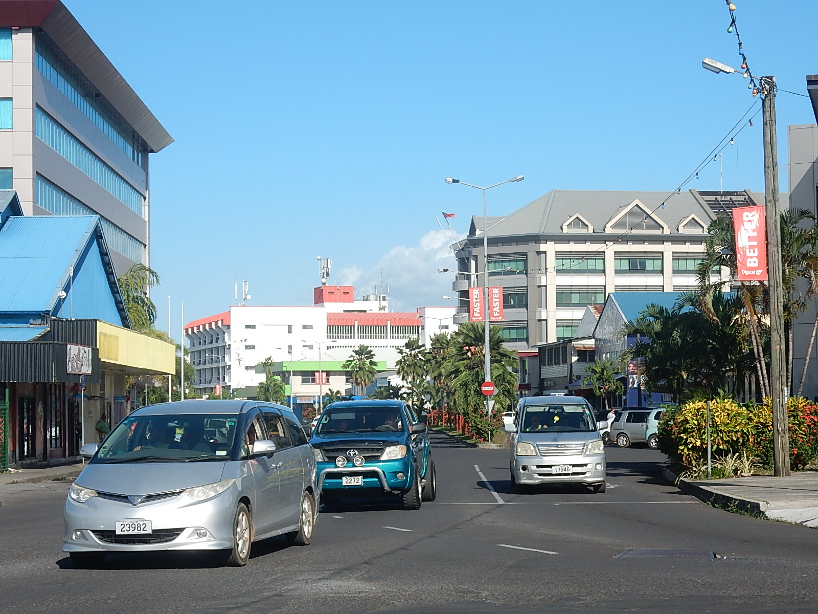 Downtown Apia